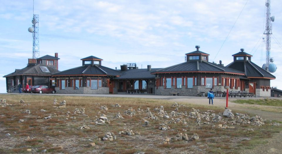 Top of Kaunispää fell, Inari, Finland